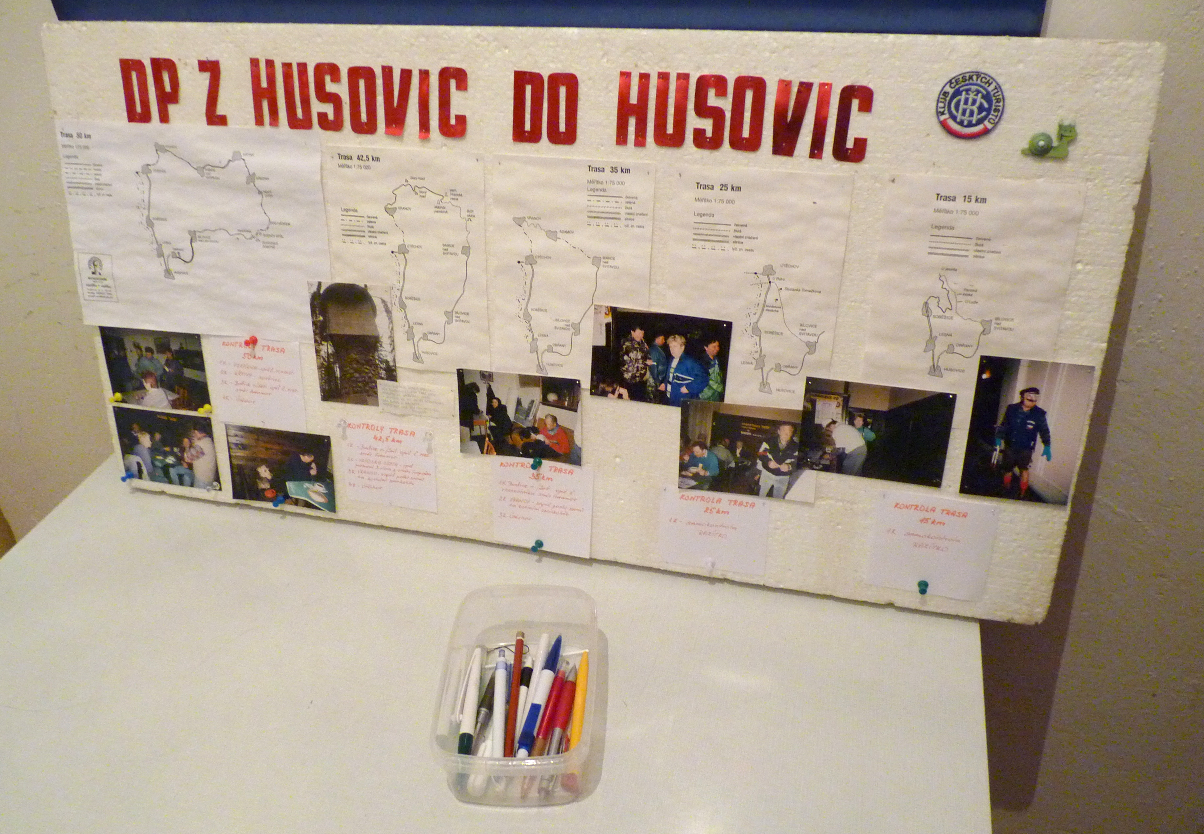 Husovice, Brno, South Moravian Region, Czech Republic